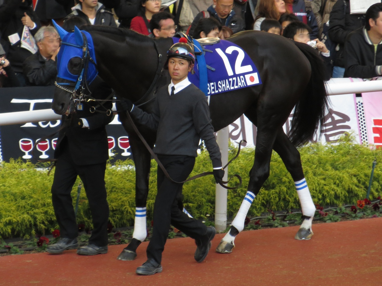 Belshazaar (Racehorse of Japan).